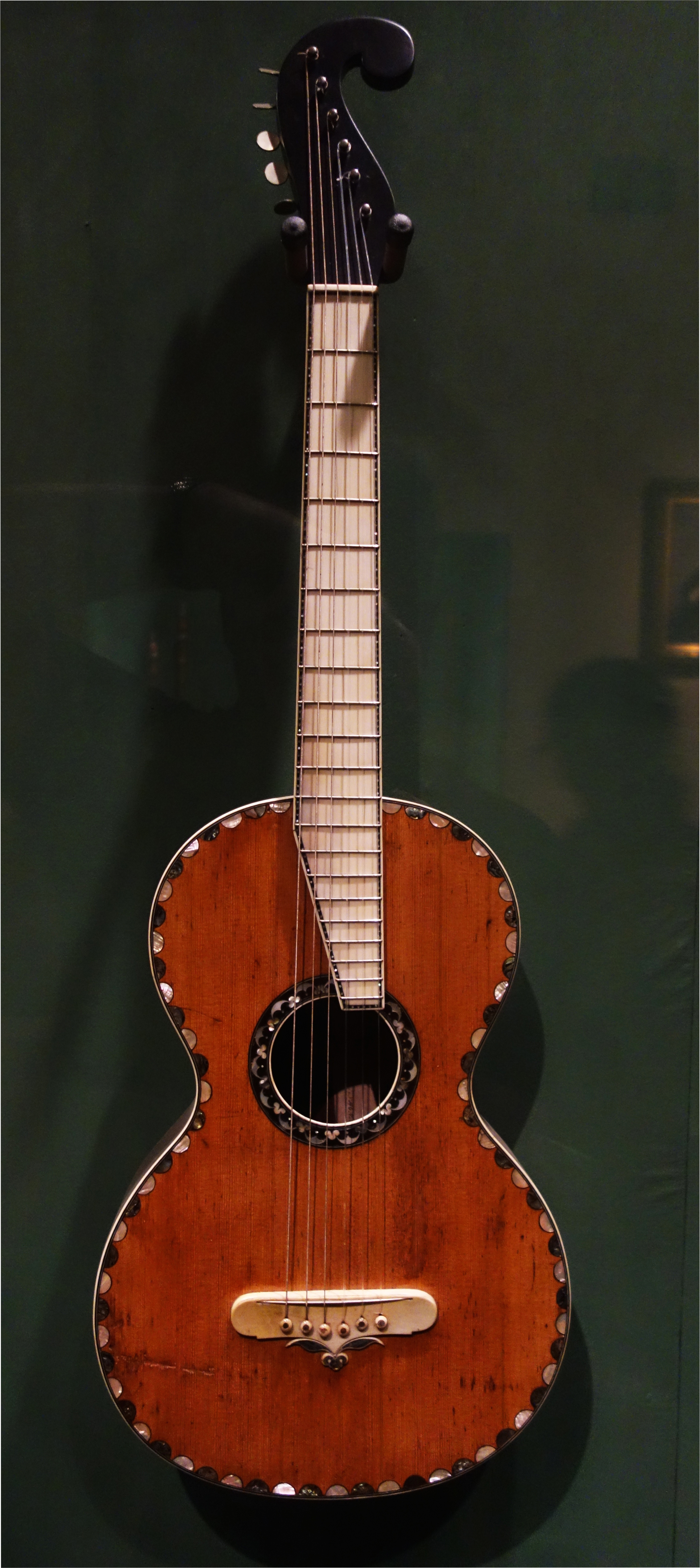 A guitar made by C.F. Martin in New York in about 1838. Martin was born in Saxony and learnt his trade in Vienna before emigrating to the United States, where he went on to found the eponymous American company. Photograph of "Early American Guitars: The Instruments of C. F. Martin" Exhibition Metropolitan Museum, New York. References "C.F. Martin ca. 1837" in Robert Shaw, Peter Szego , ed. Inventing The American Guitar - The Pre-Civil War Innovations of C.F. Martin and His Contemporaries, Hal Leonard Books, October 2013, 310pp ISBN: 9781458405760. UPC: 884088578350